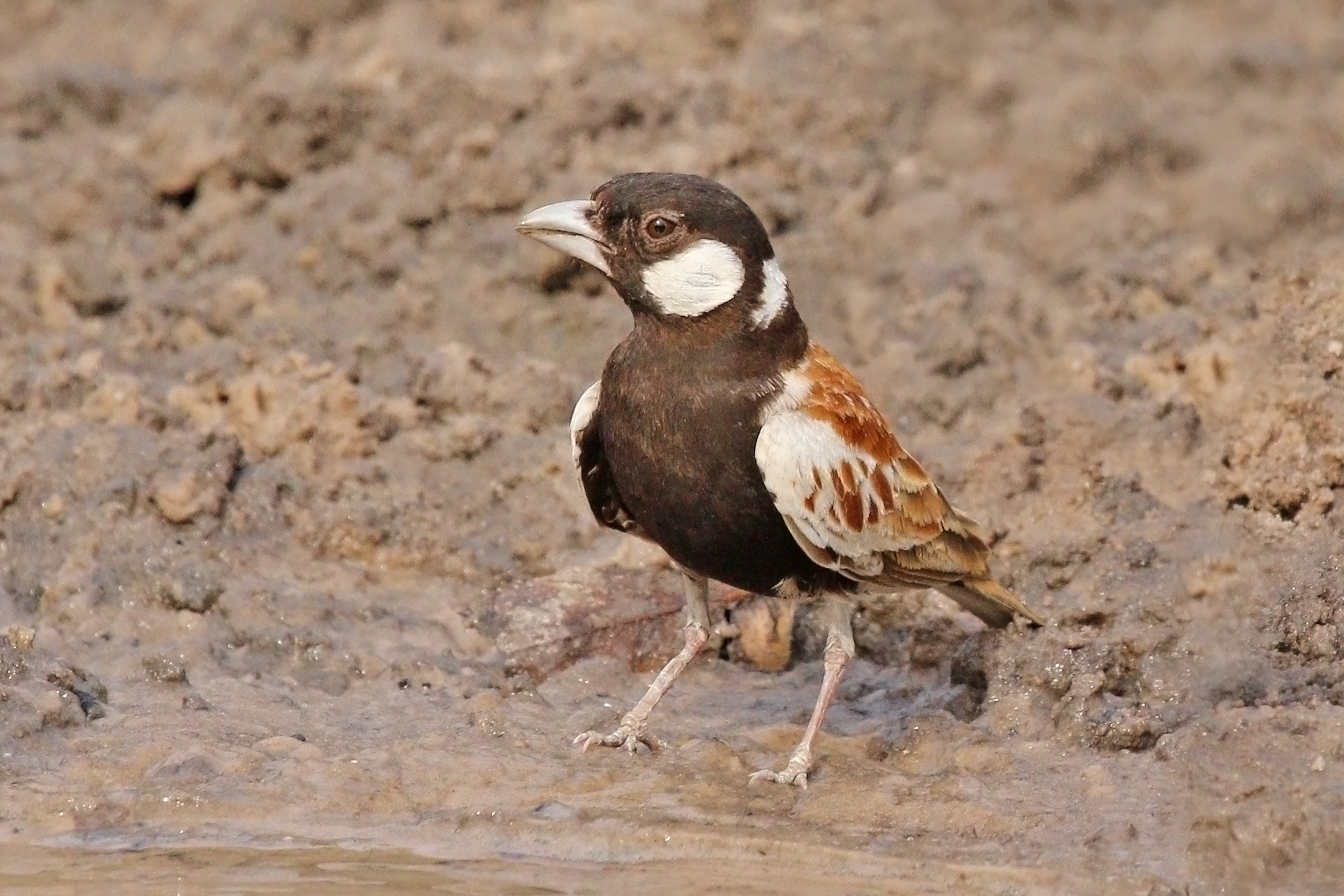 Chestnut-backed sparrow-lark (Eremopterix leucotis melanocephalus) male, Senegal